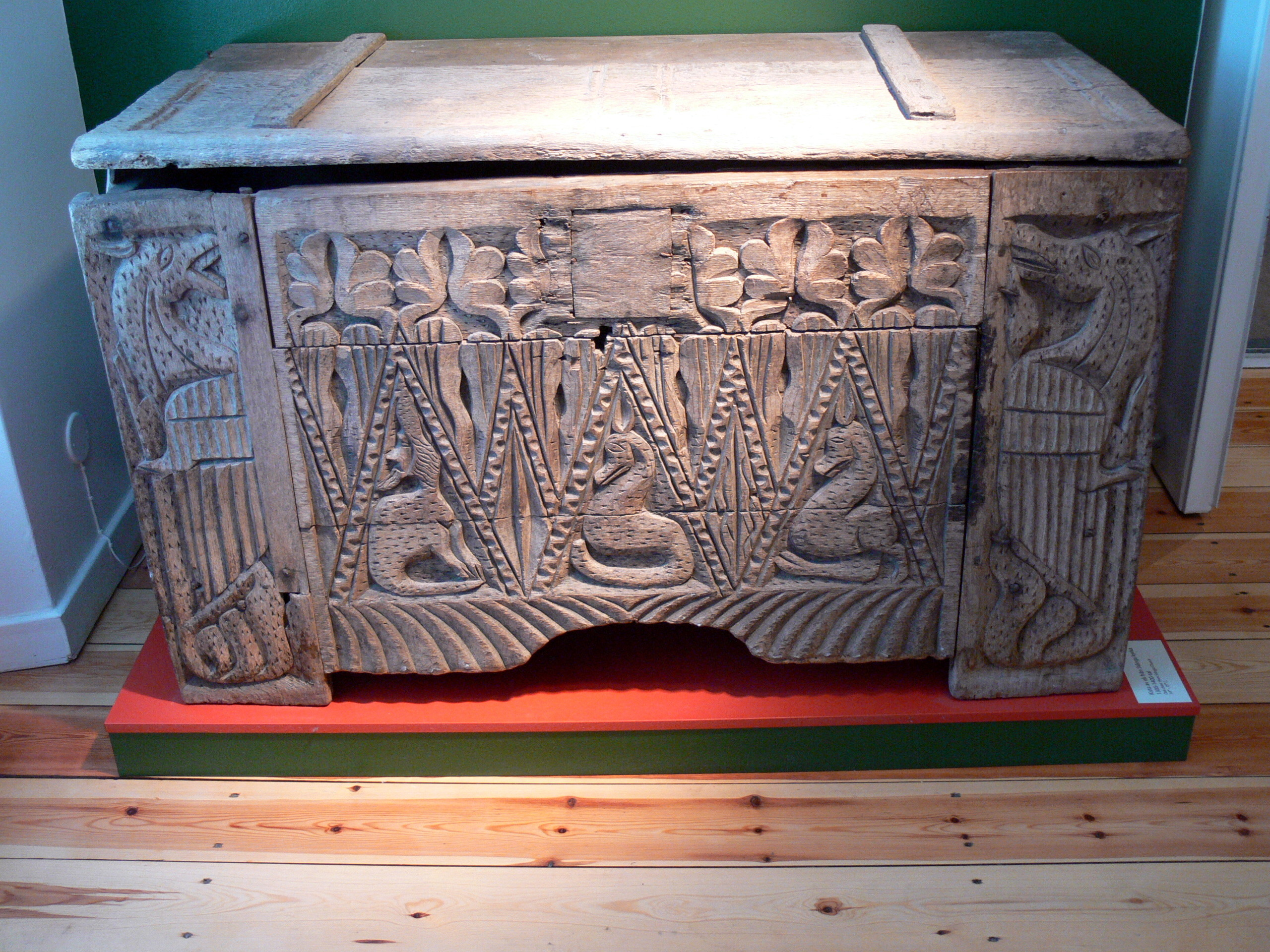 Fornsalen Museum, Visby ( Gotland ). Medieval chest.